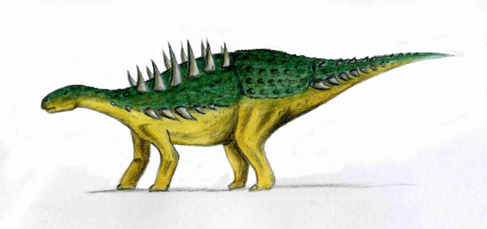 Author:ArthurWeasley